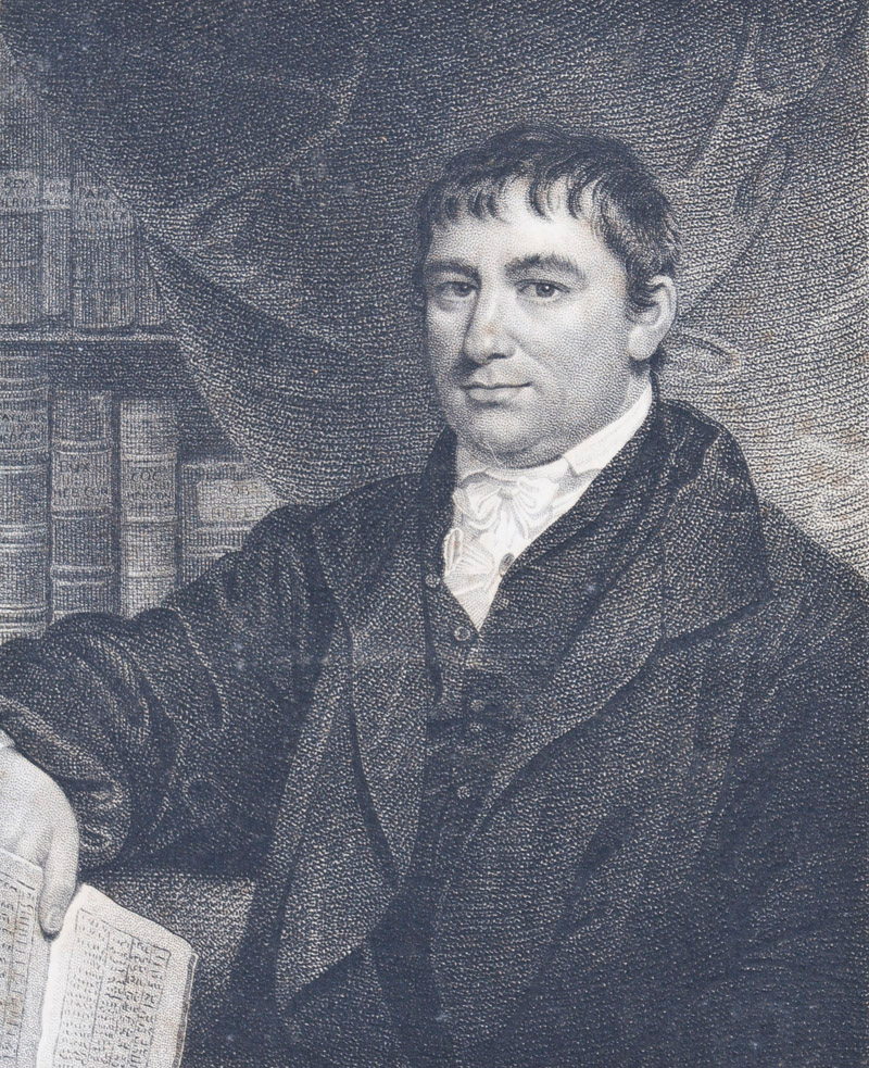 Joseph Samuel Christian Frederick Frey (born Joseph Levi) (1771–1850) was a Jewish Christian missionary to his own people.